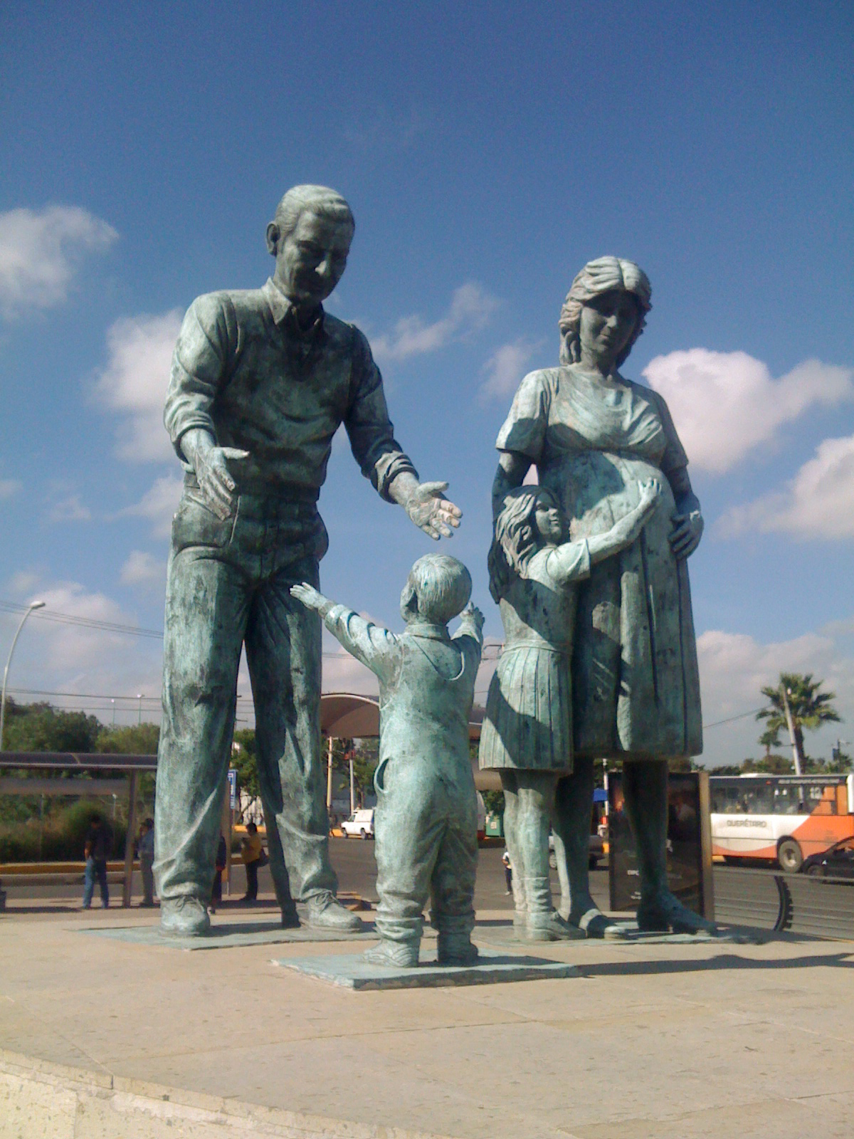 Bronze sculpture, work of artist Miguel Michel, titled Family, located on Queretaro, Mexico.